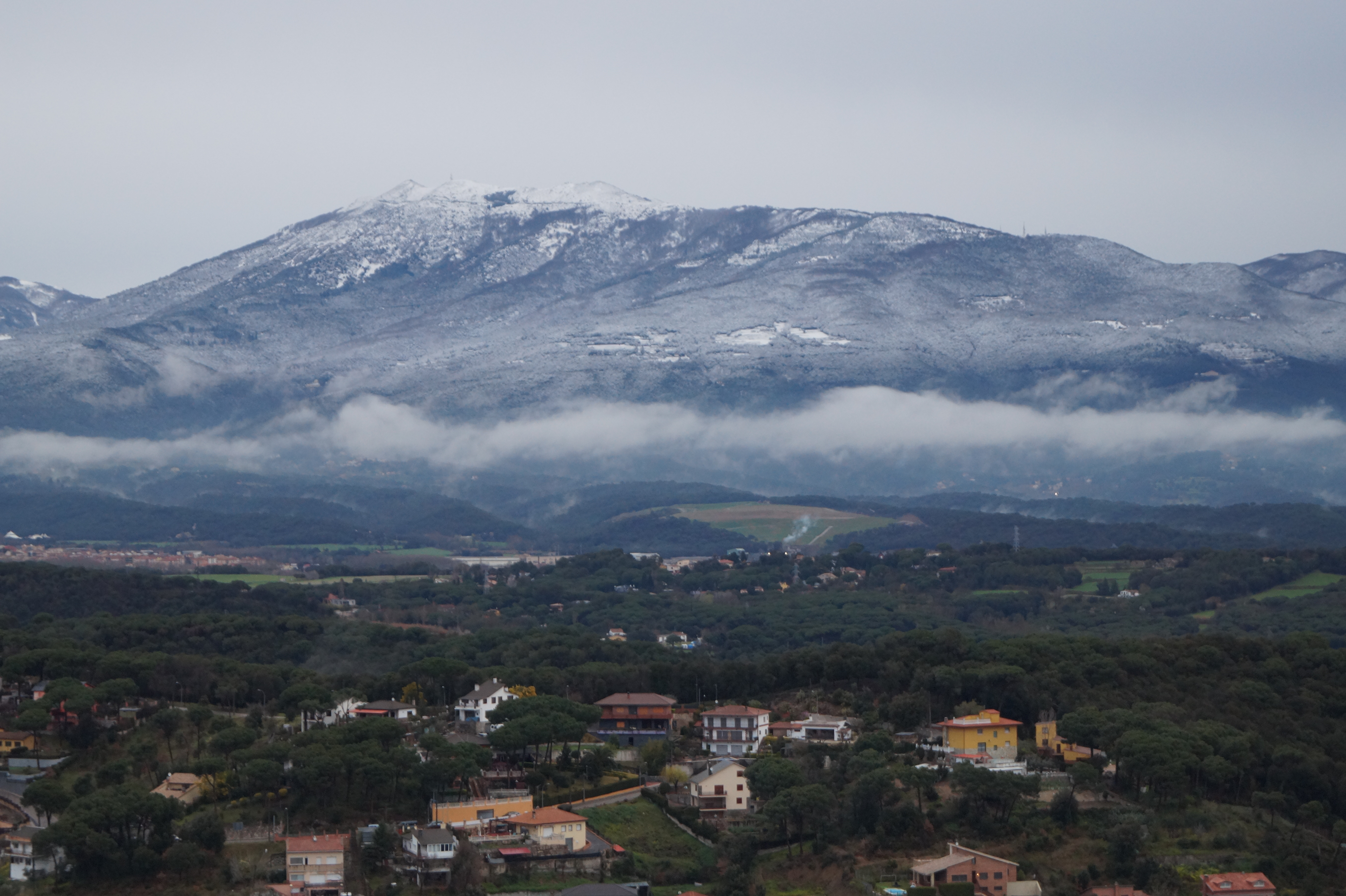 The Montseny massif snowed on March 20, 2018